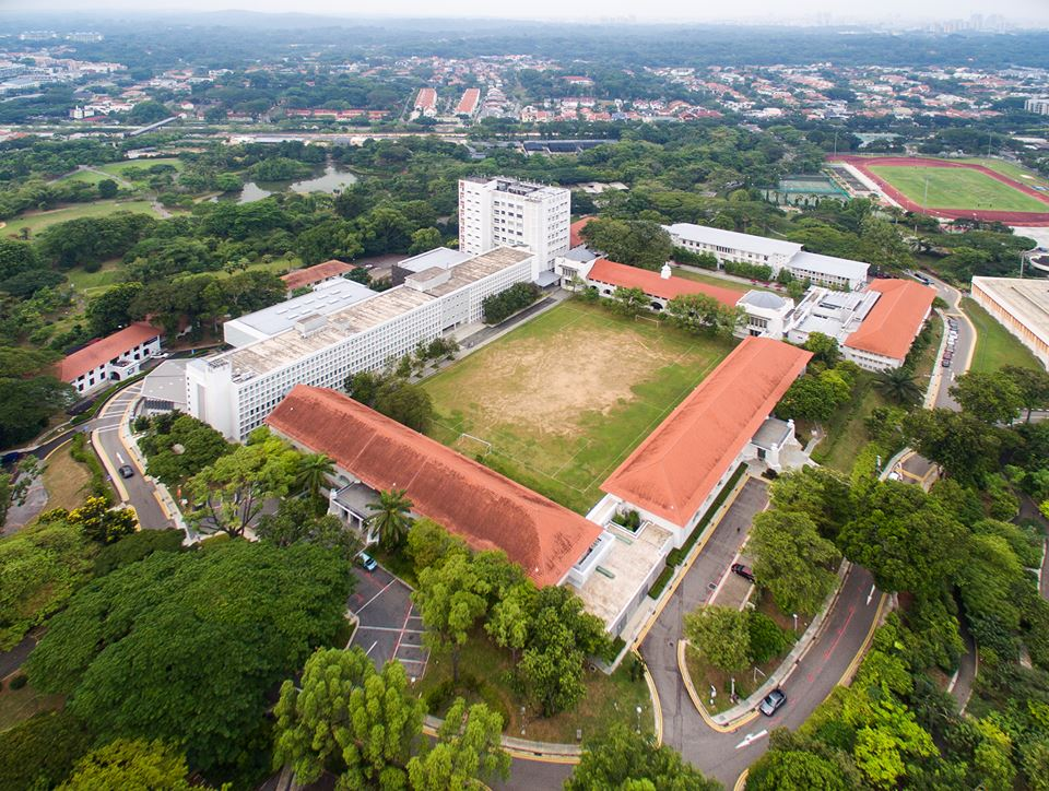 NUS Bukit Time Law Campus from the air. 2015.